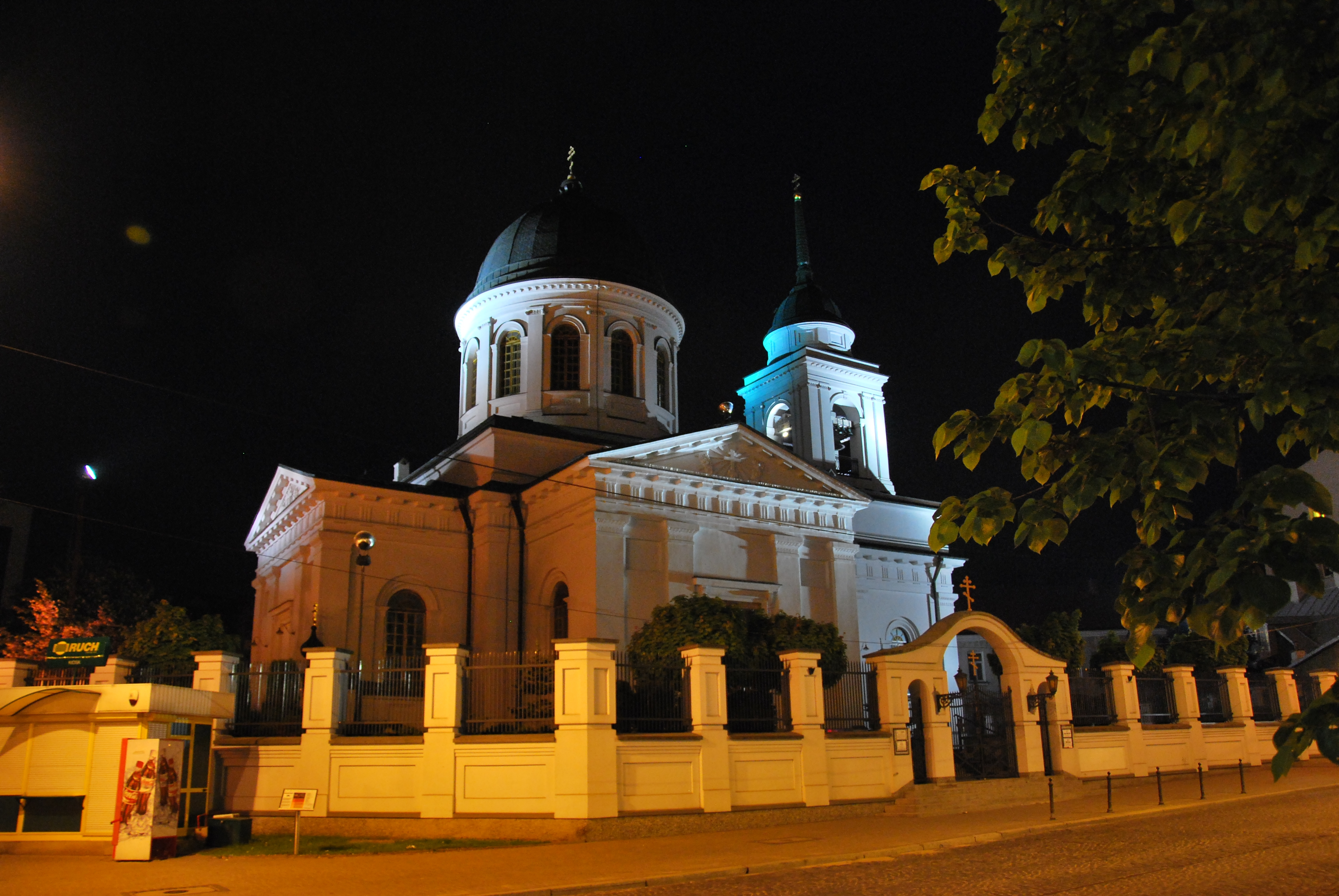 Orthodox Cathedral of St. Nicolas in Białystok